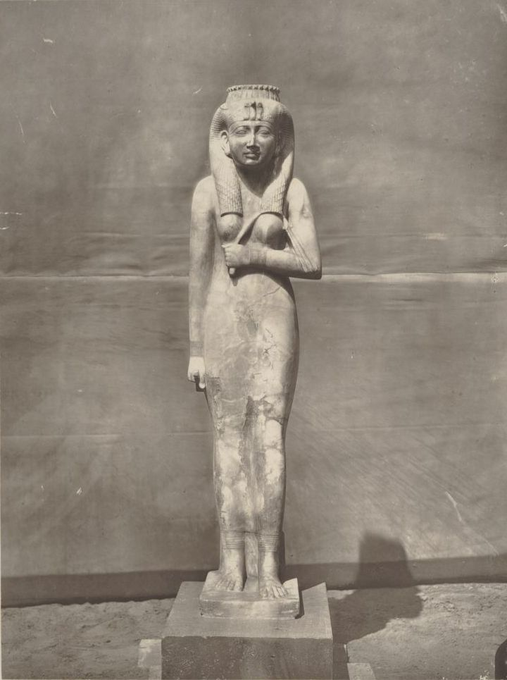 A sculpture of Amneritis, found in Karnak. Black-and-white photograph.